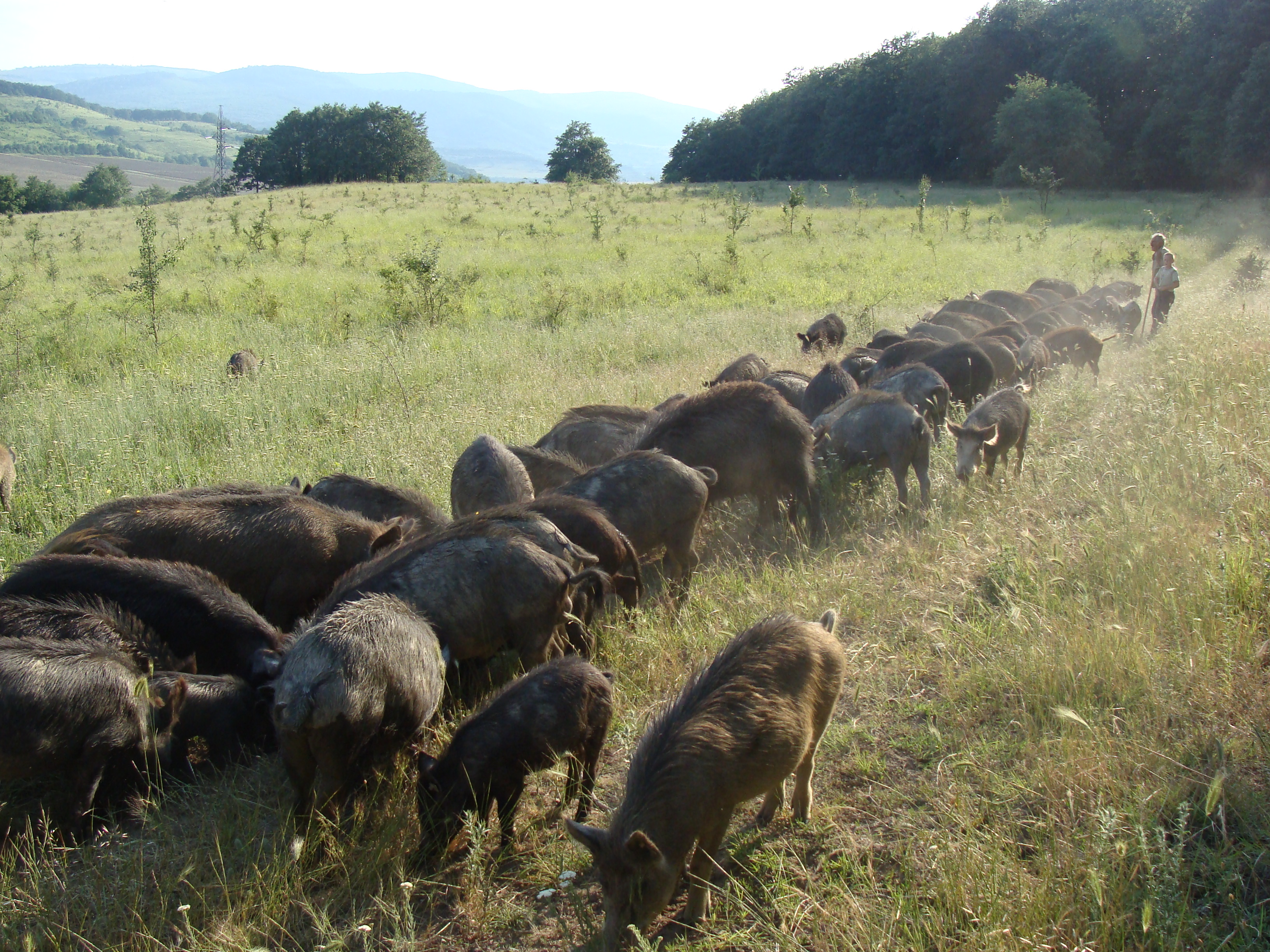 East Balkan Herd